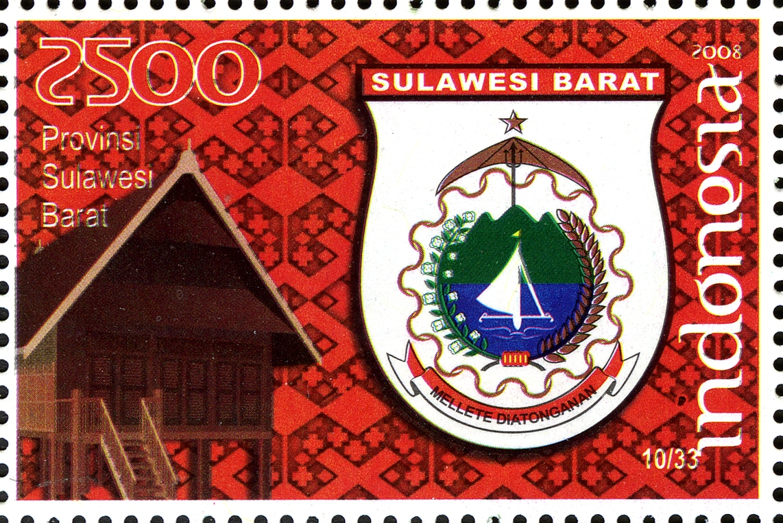 Stamps of Indonesia